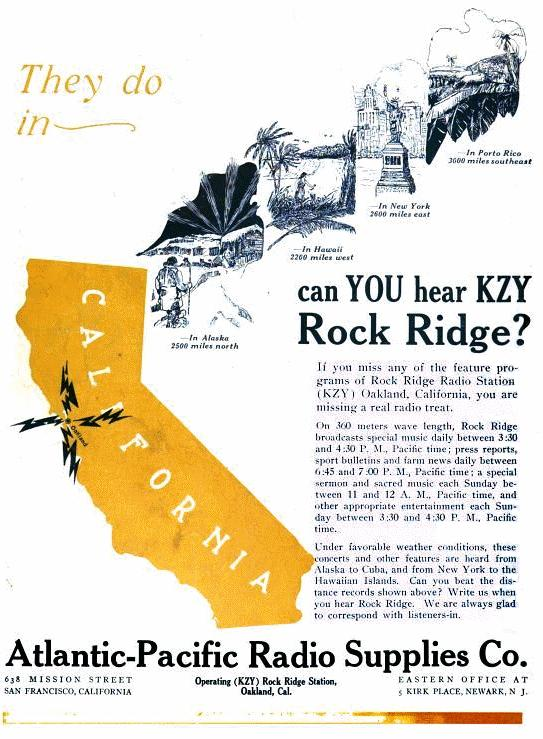 Advertisement for radio station KZY which appeared on the back page of the June, 1922 issue of Radio magazine